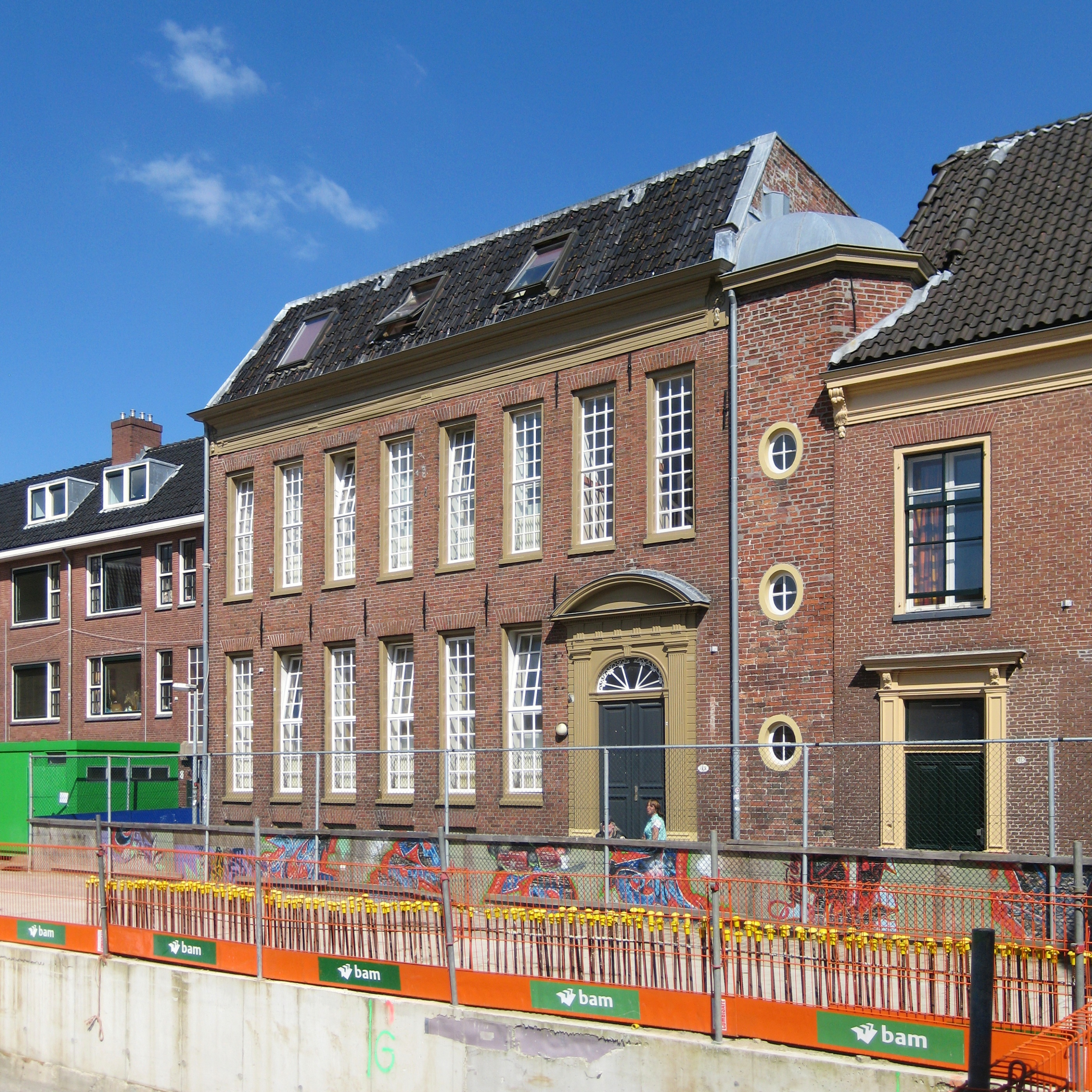 The Ommelanderhuis, a late 16th century building in the Dutch city of Groningen.